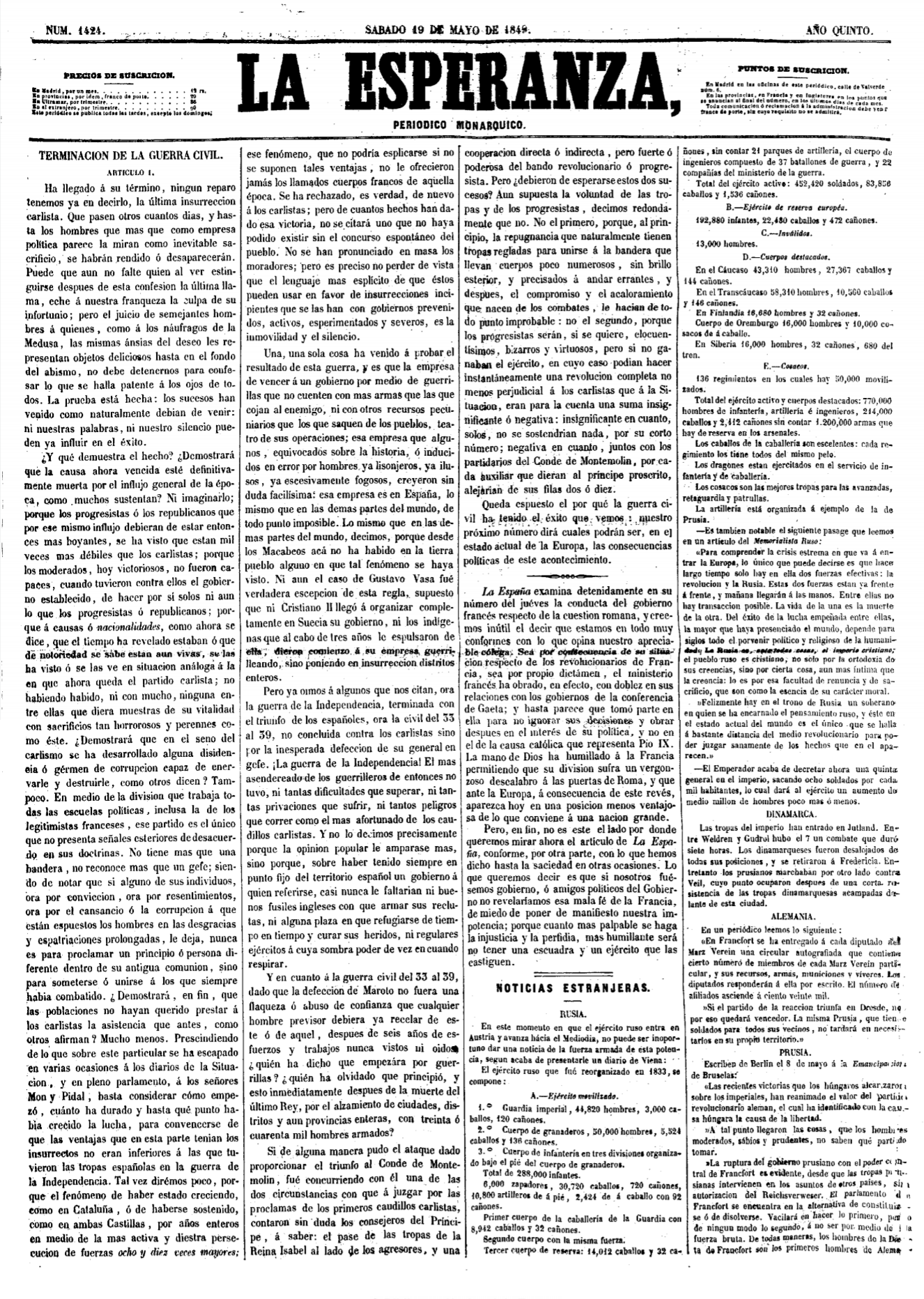 La Esperanza 19.05.1849